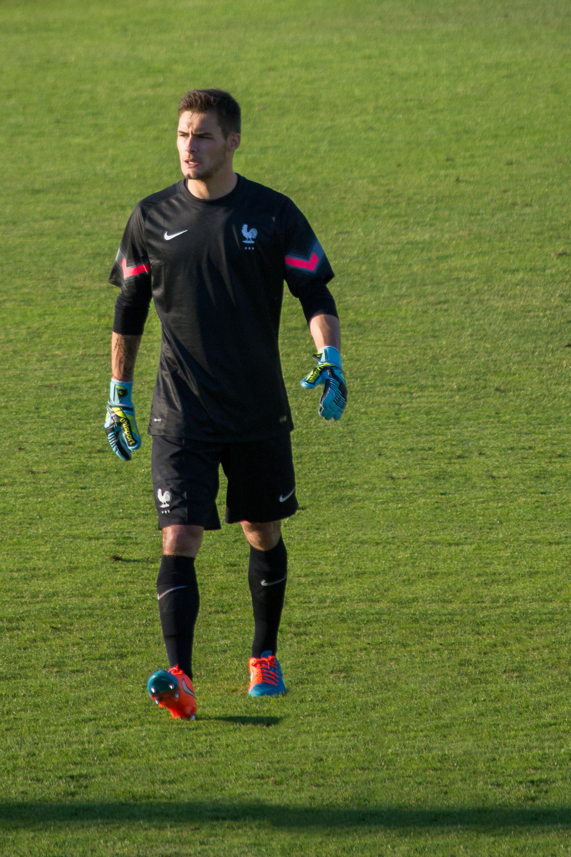 Thomas Didillon playing for France U-23 against Costa Rica in 2015 Toulon Tournament